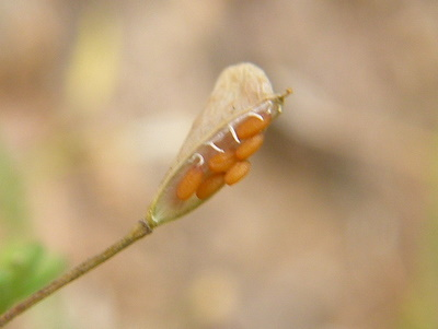 Seeds of Capsella bursa-pastoris or shepherd's-purse. Sendai|, Miyagi prefecture, Japan.